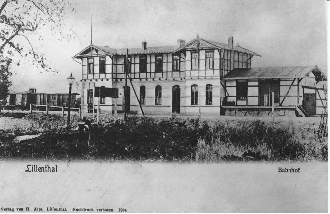 Lilienthal station at the narrow gauge railroad "Jan Reiners"